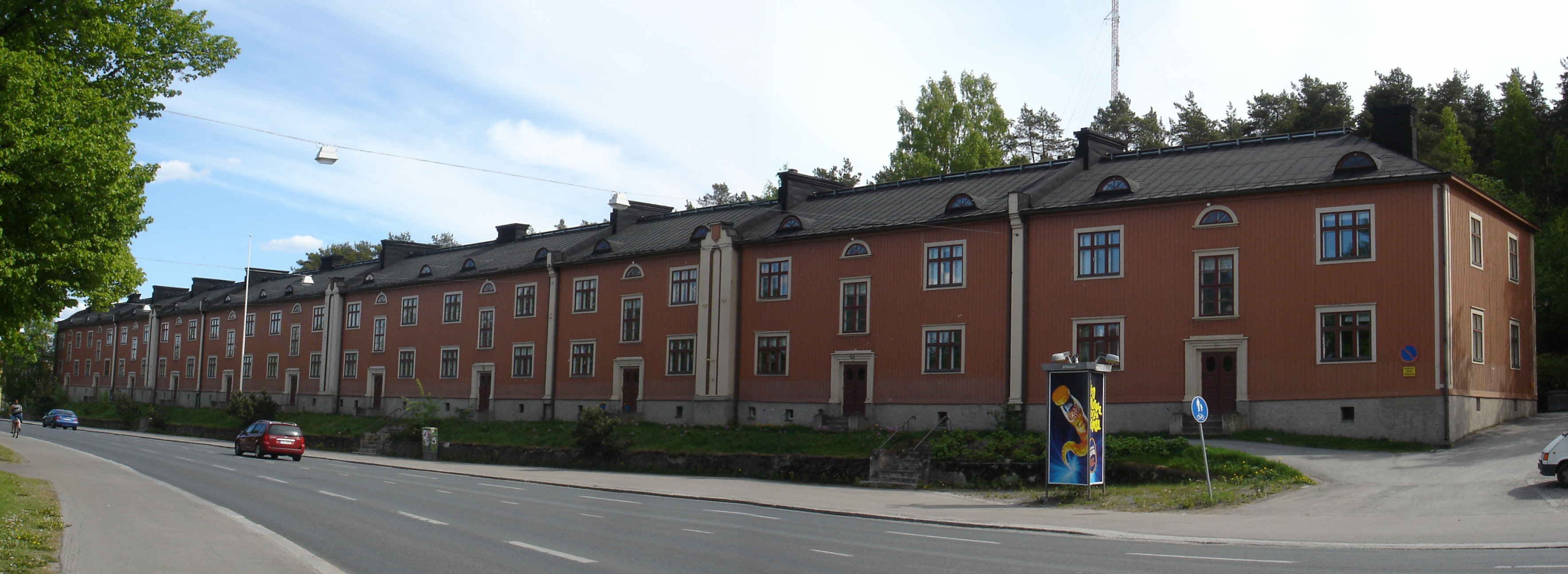 A 138 metres long house known as the Kilometritalo (translation: kilometer house) located in Pyynikinrinne district of Tampere, Finland.